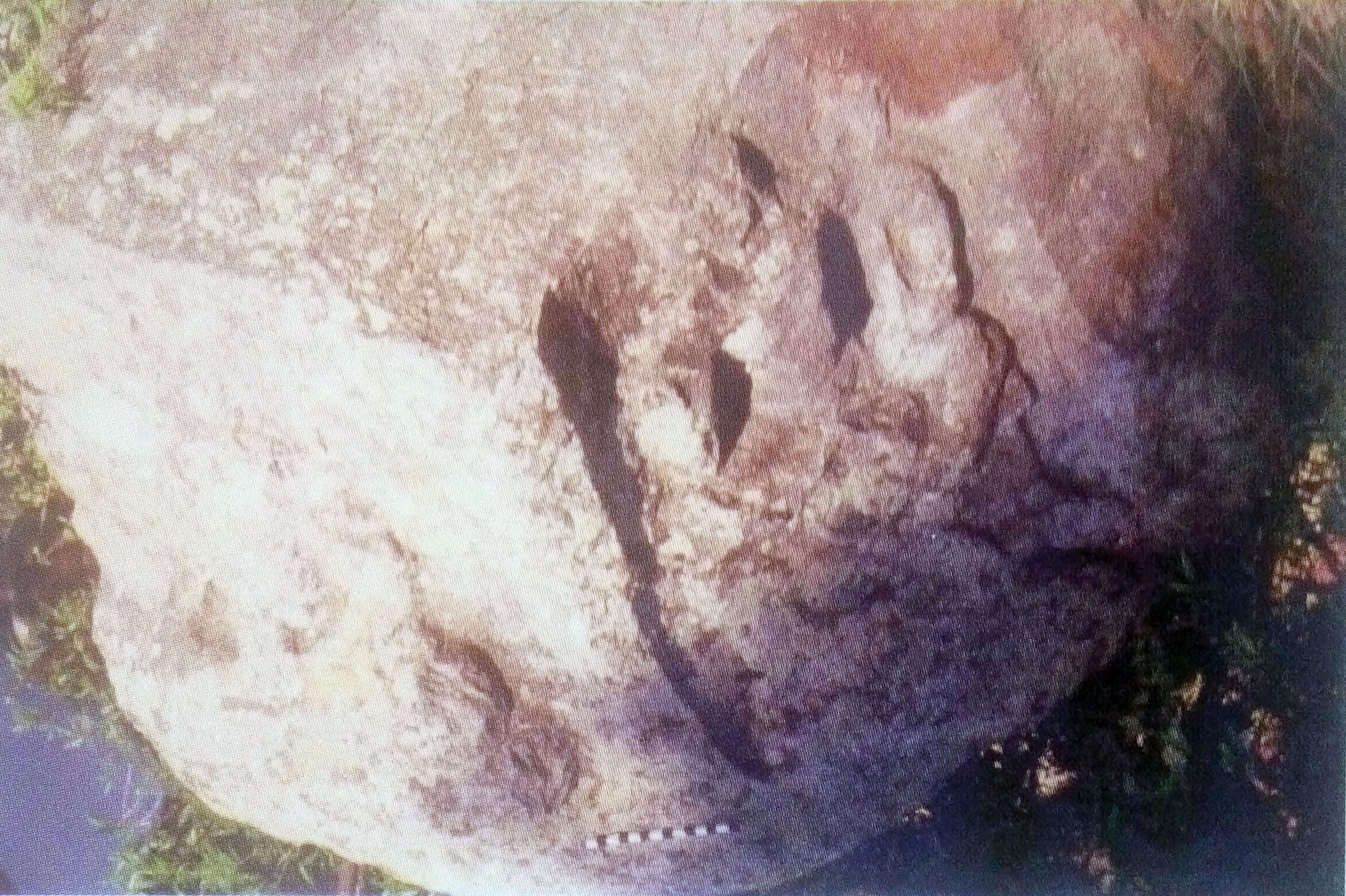 Buddhist Rock Carvings in Manglawar